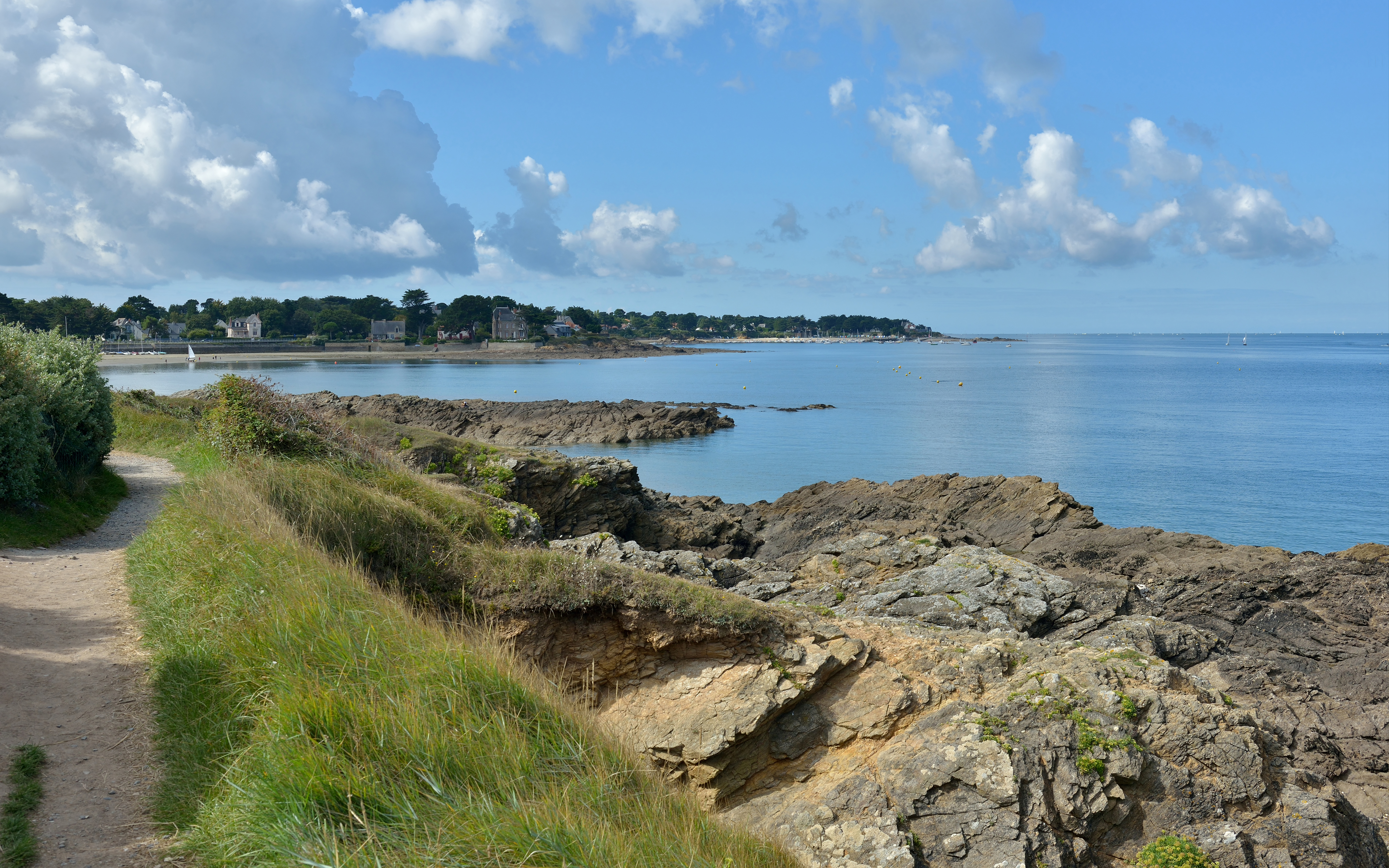 "Pointe de Sorlok" in Quimiac in France